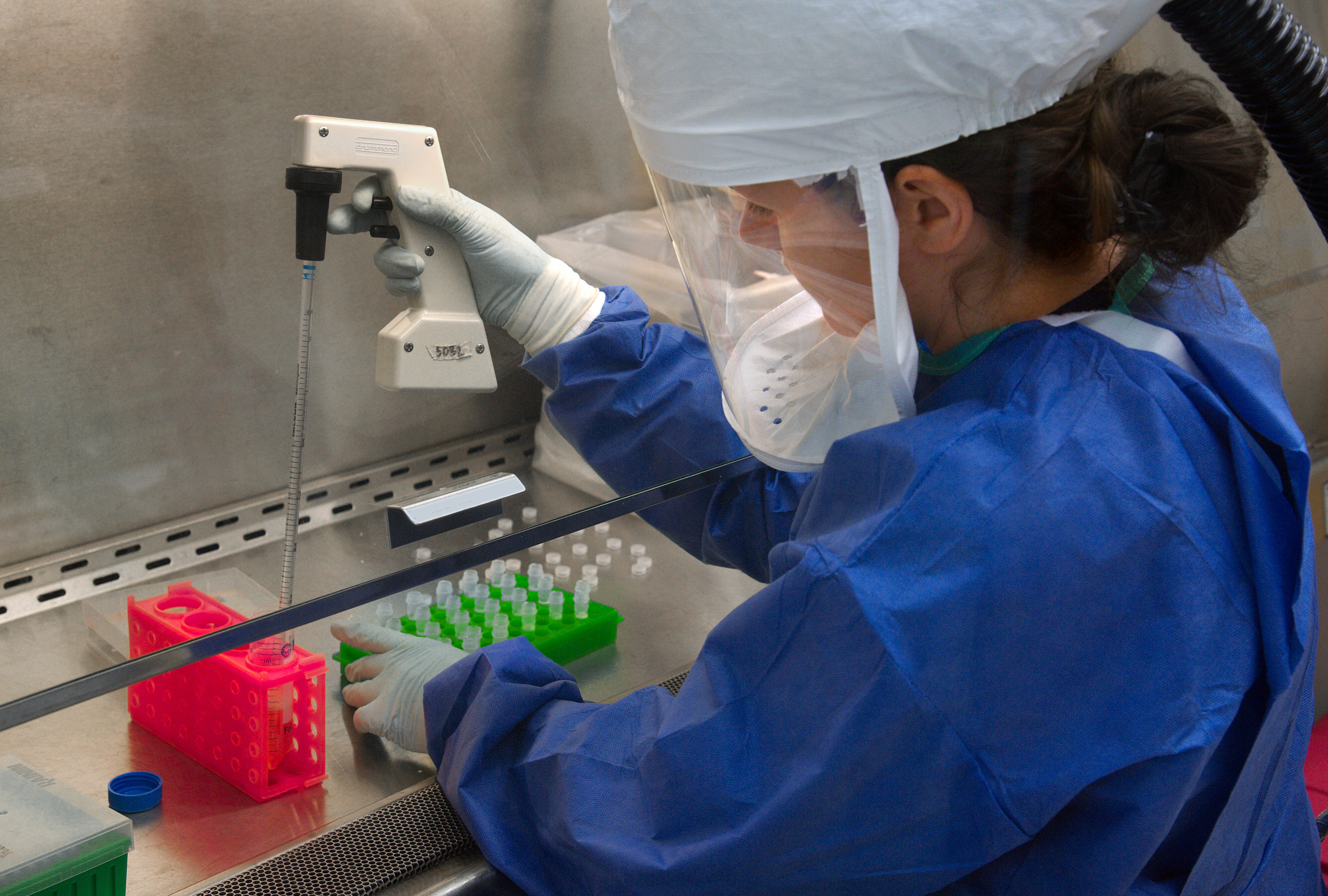 A CDC scientist uses a pipette to transfer H7N9 virus into vials for sharing with partner laboratories for public health research purposes.